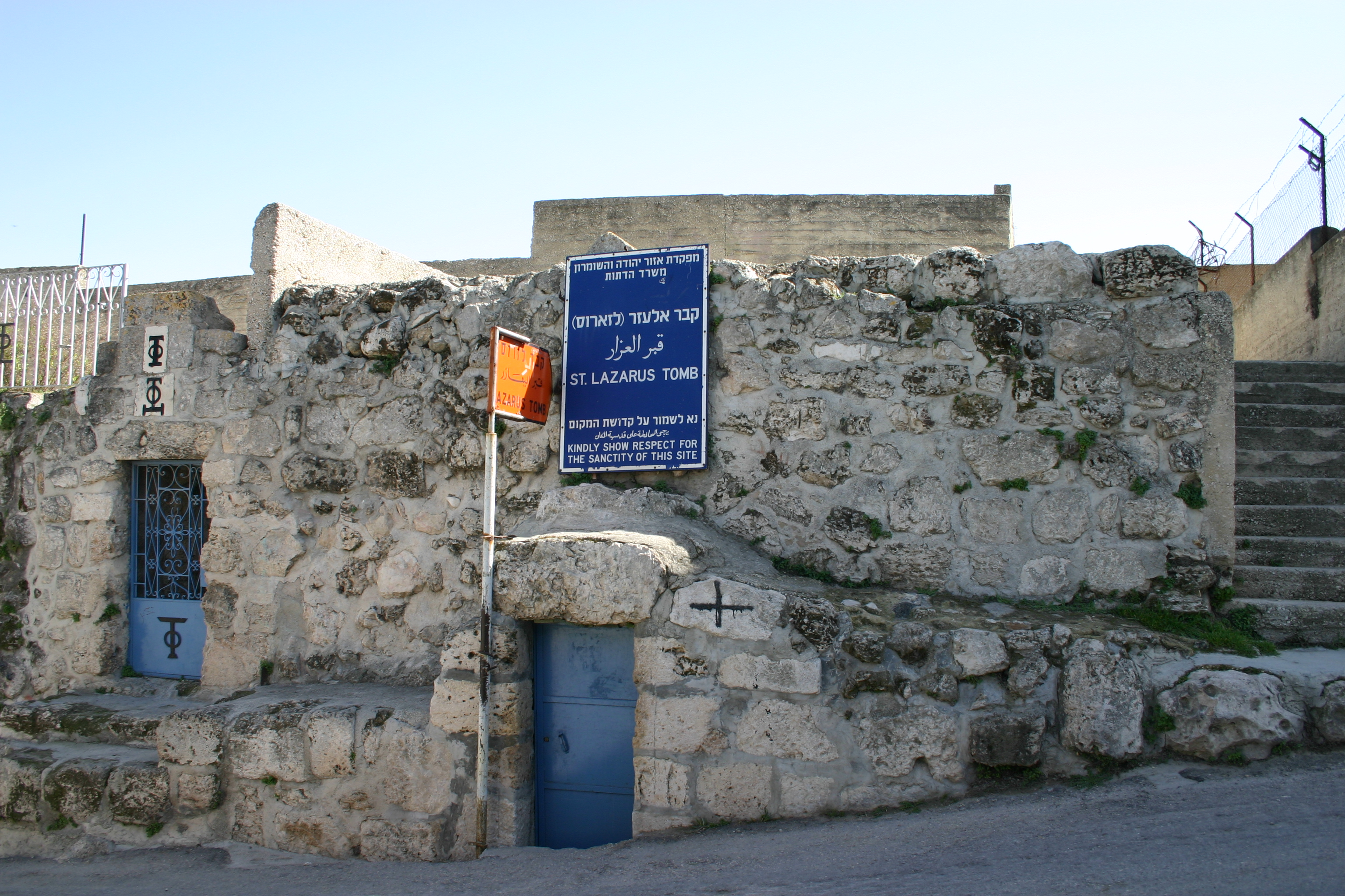 Tomb of St Lazarus in Bethany, 2016